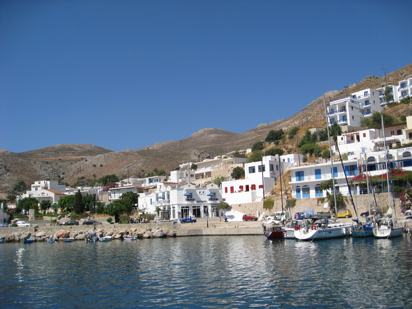 Tasos Aliferis, Tilos, Greece